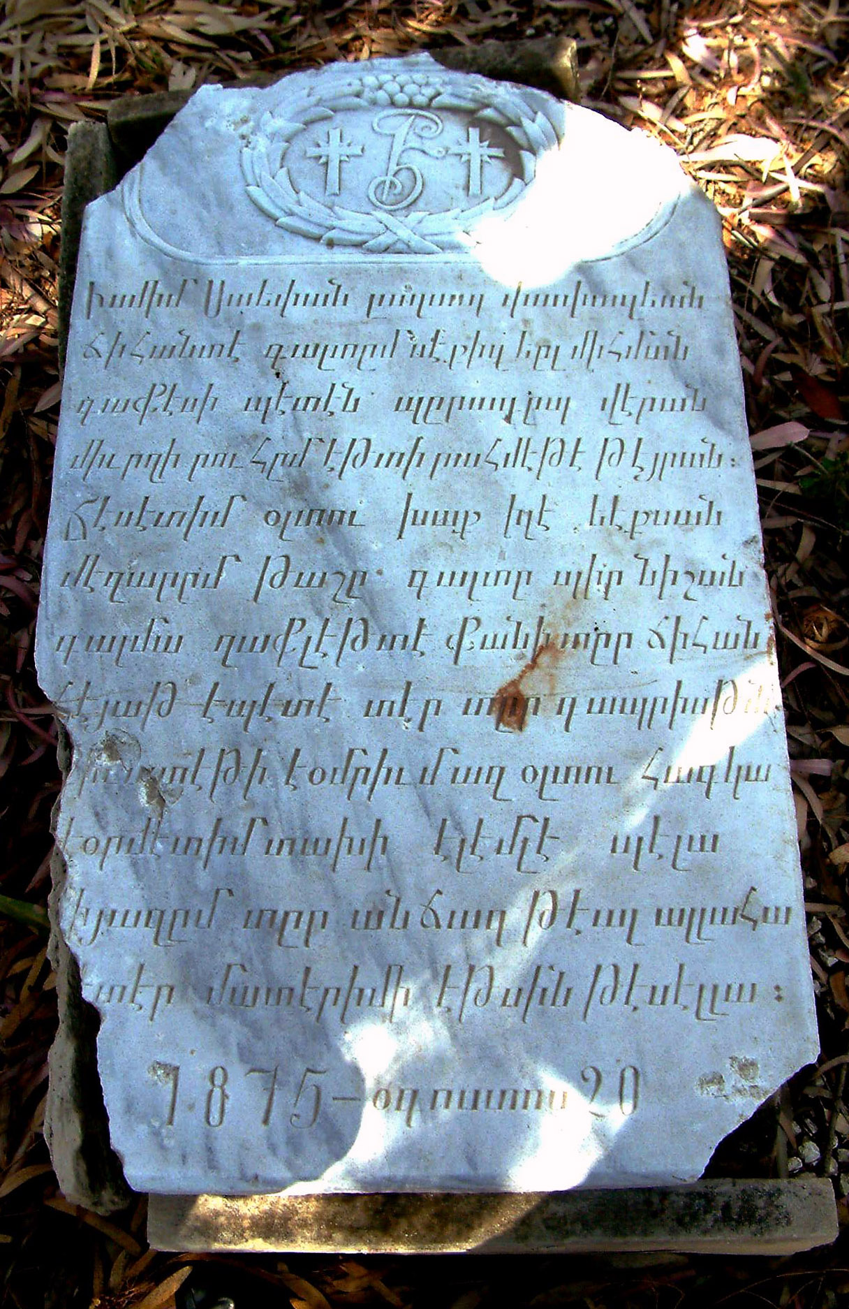 The tomb of Sdepan Papazian (1875)